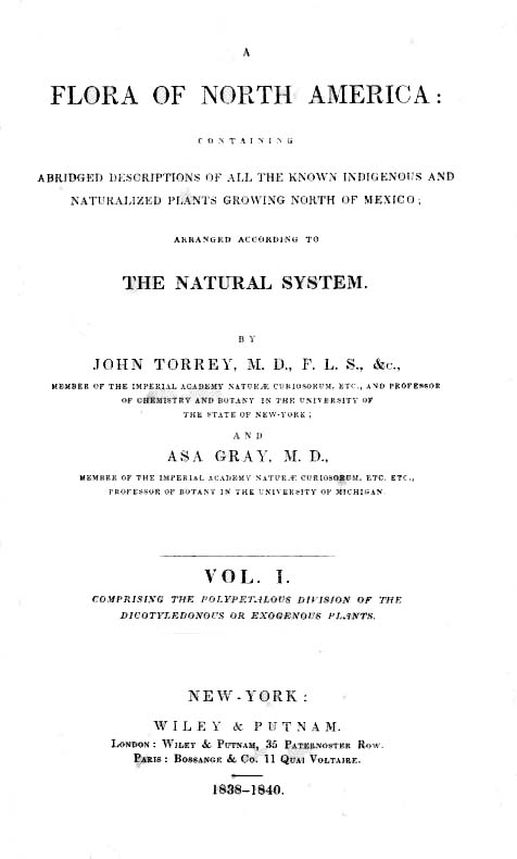 A Flora of North America by John Torrey and Asa Gray - Titlepage